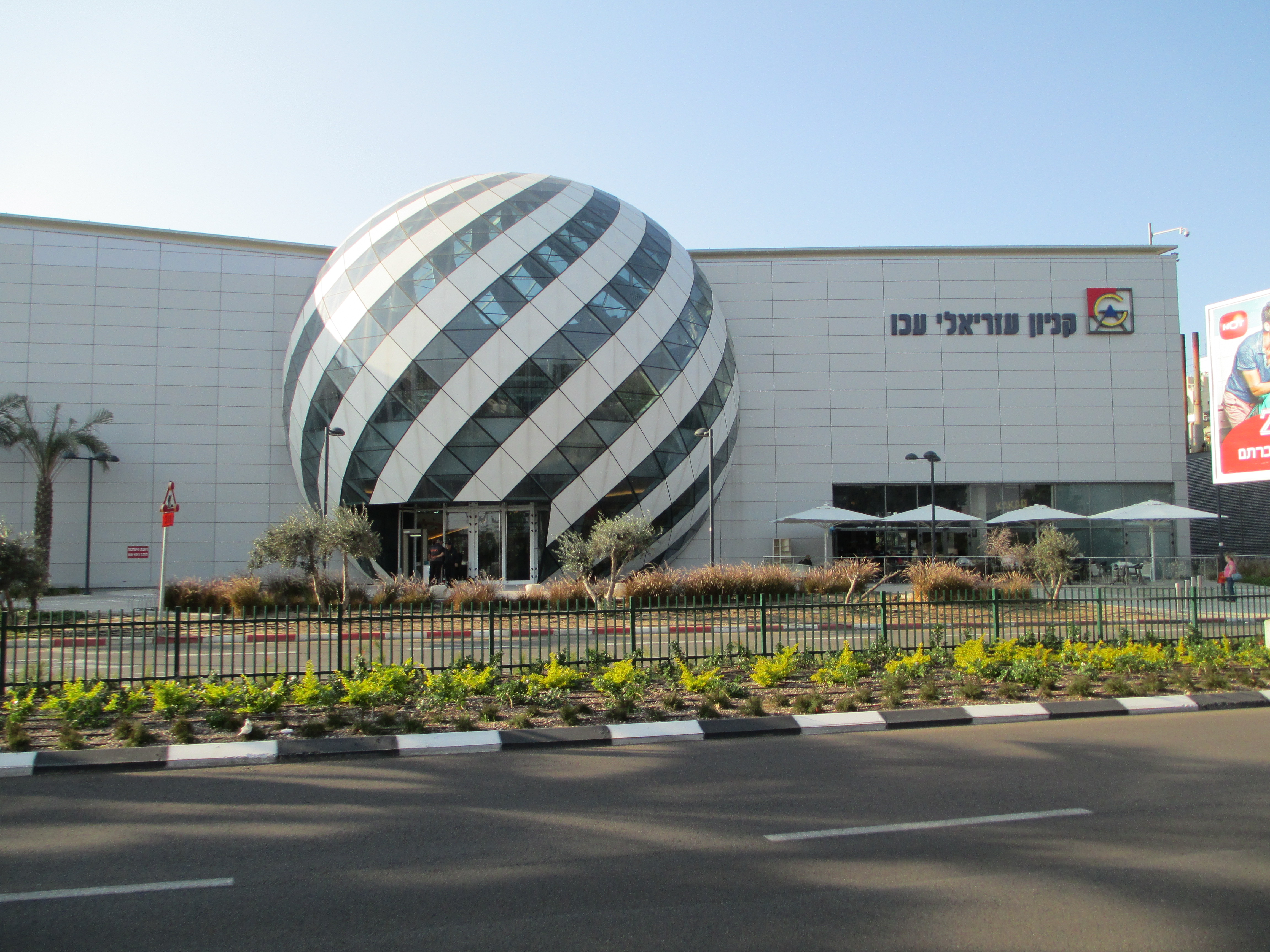 Azrieli mall in Acre